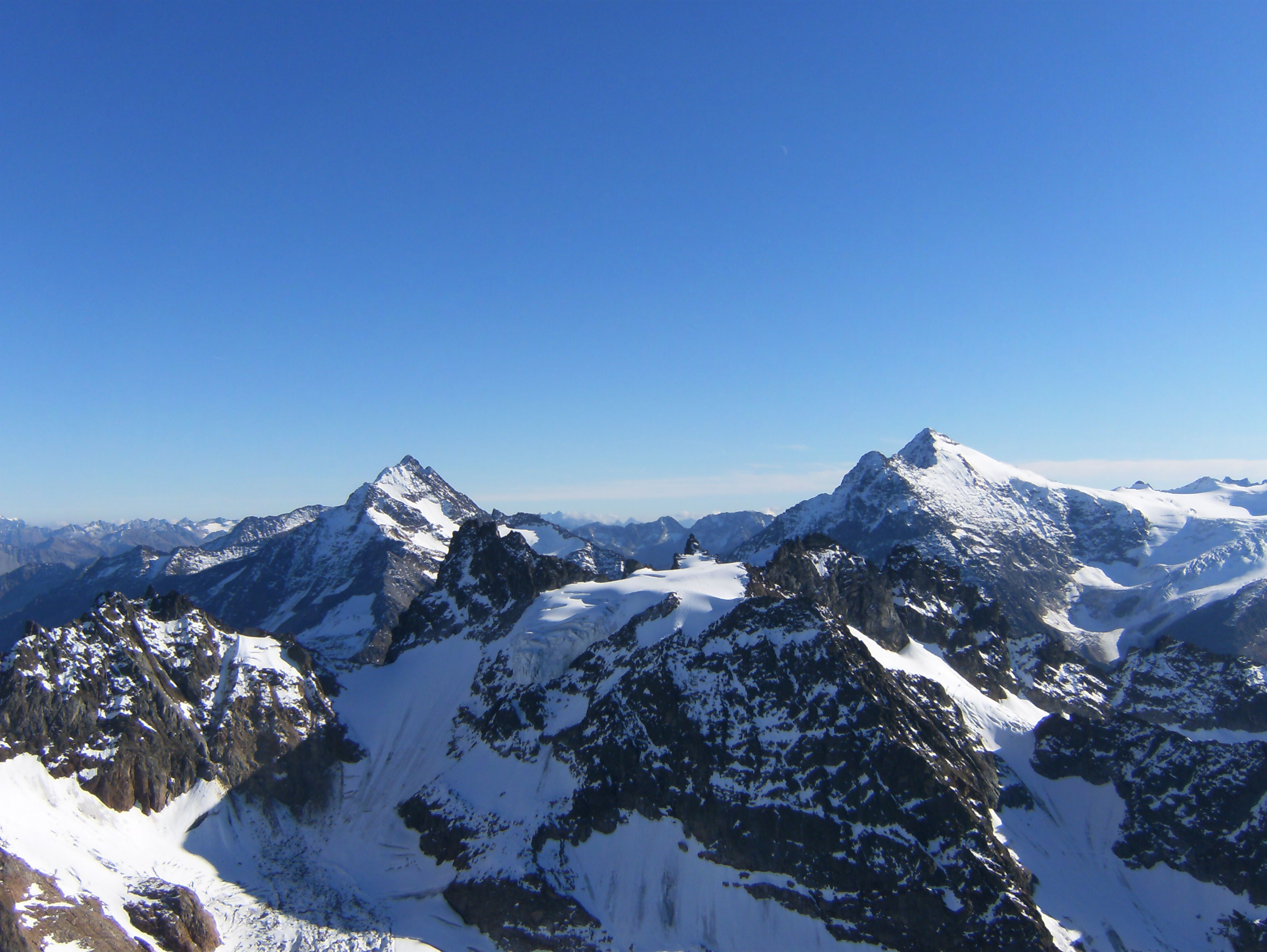 Camera position: Klein Titlis (3020 m), looking South. Fleckistock (3416 m), Klein Sustenhorn (3315 m), Sustenhorn (3504 m).